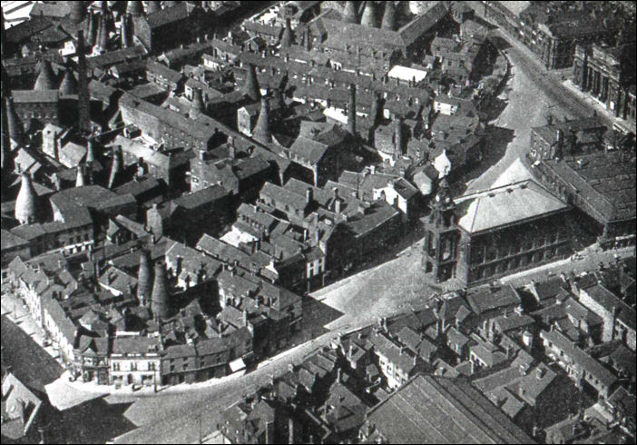 Very old aerial photo of the Central Works in Burslem